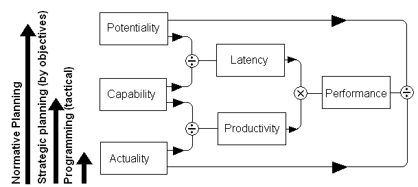 Redrawn with amendments from "Brain of the Firm" p163 in Paint.